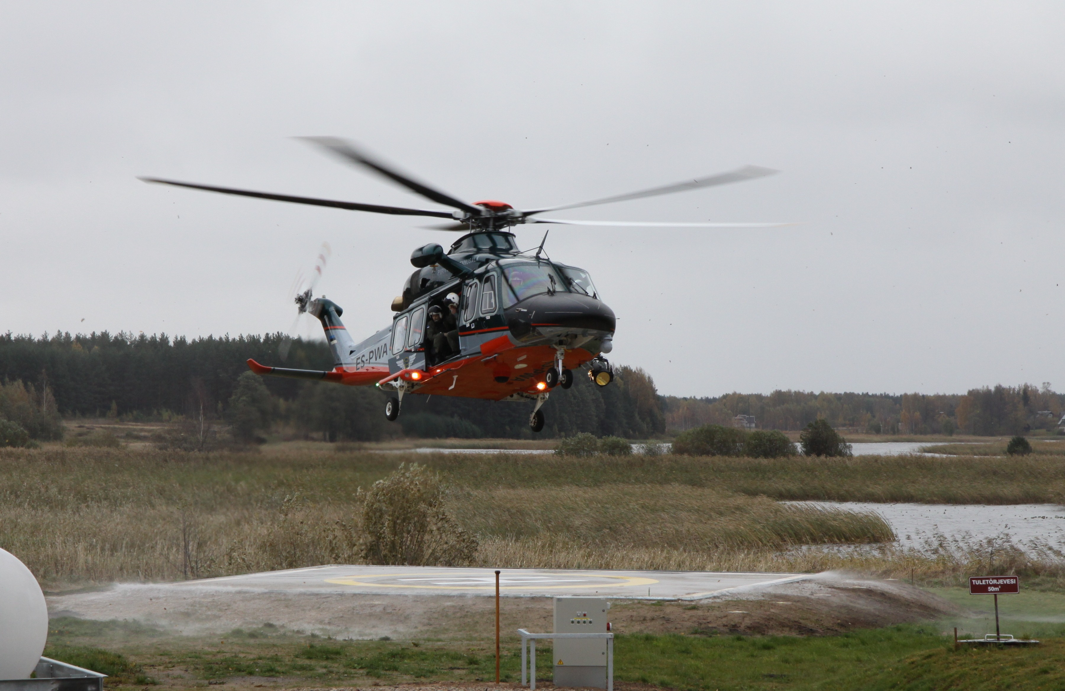 Ceremony marks completion of USACE, EUCOM project in Varska On Oct. 15, 2010, members of the Estonian Police and Border Guard Bureau, U.S. Embassy Tallin, U.S. European Command and U.S. Army Corps of Engineers Europe District officially opened a 10-by-10 meter, $240,000, illuminated helicopter landing pad in Värska, Estonia. The landing pad, funded by EUCOM and managed by USACE, will help Estonian police and border guard operate more efficiently due to the upgrades. Additionally, along with a new helicopter pad and the other upgrades north in Narva, the nearly $560,000 project includes an enclosed hanger and new surrounding pavement. (U.S. Army Corps of Engineers photo by Carol E. Davis)